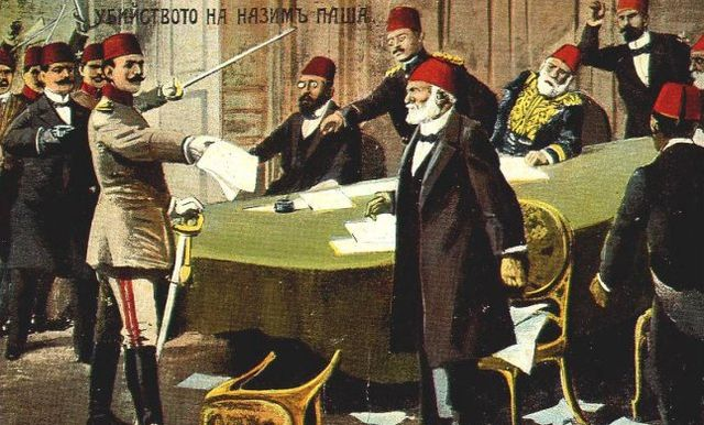 Enver Bey forcing Kamil Pasha to resign